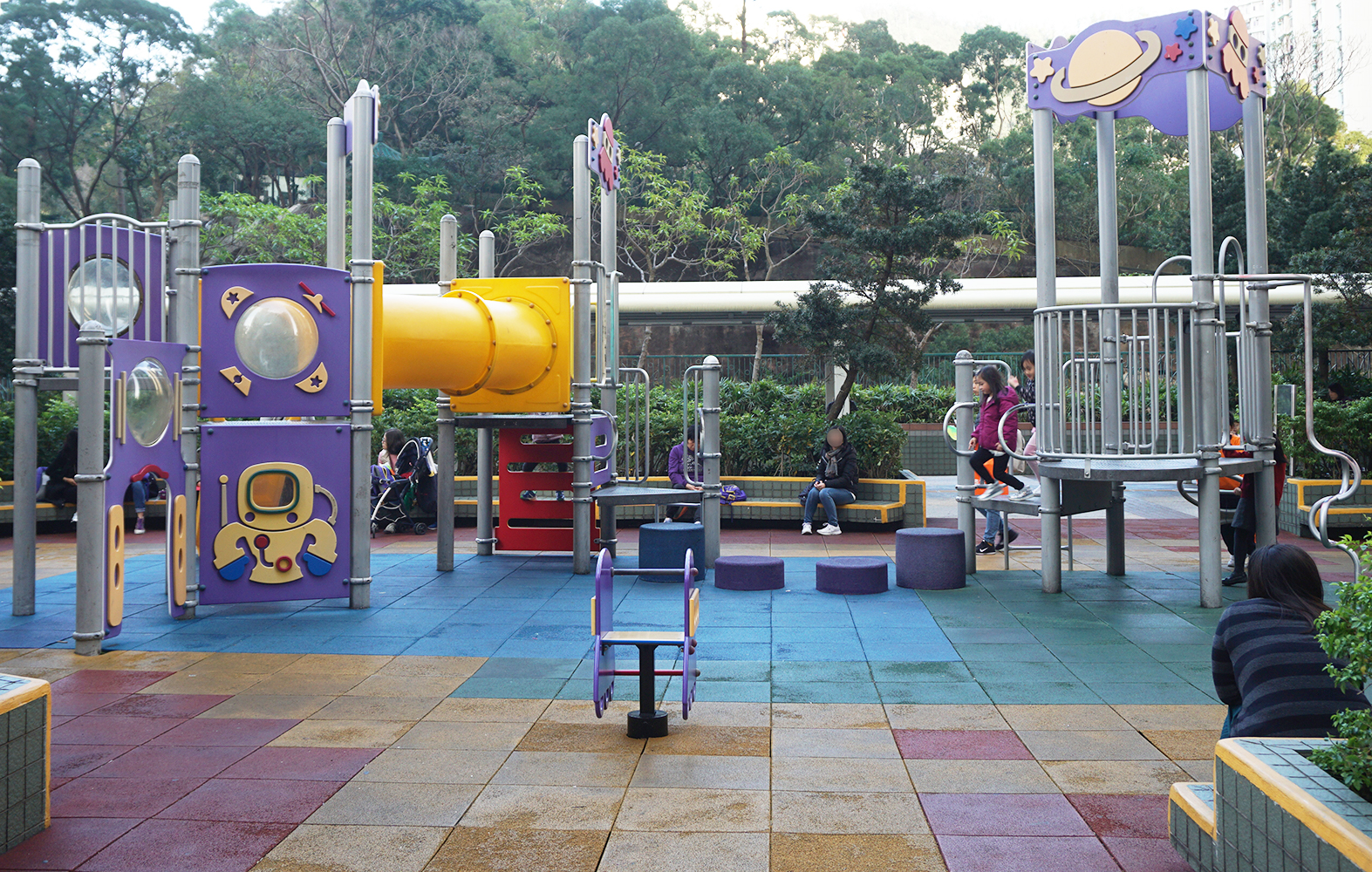 Yau Mei Court in Yau Tong, Hong Kong.